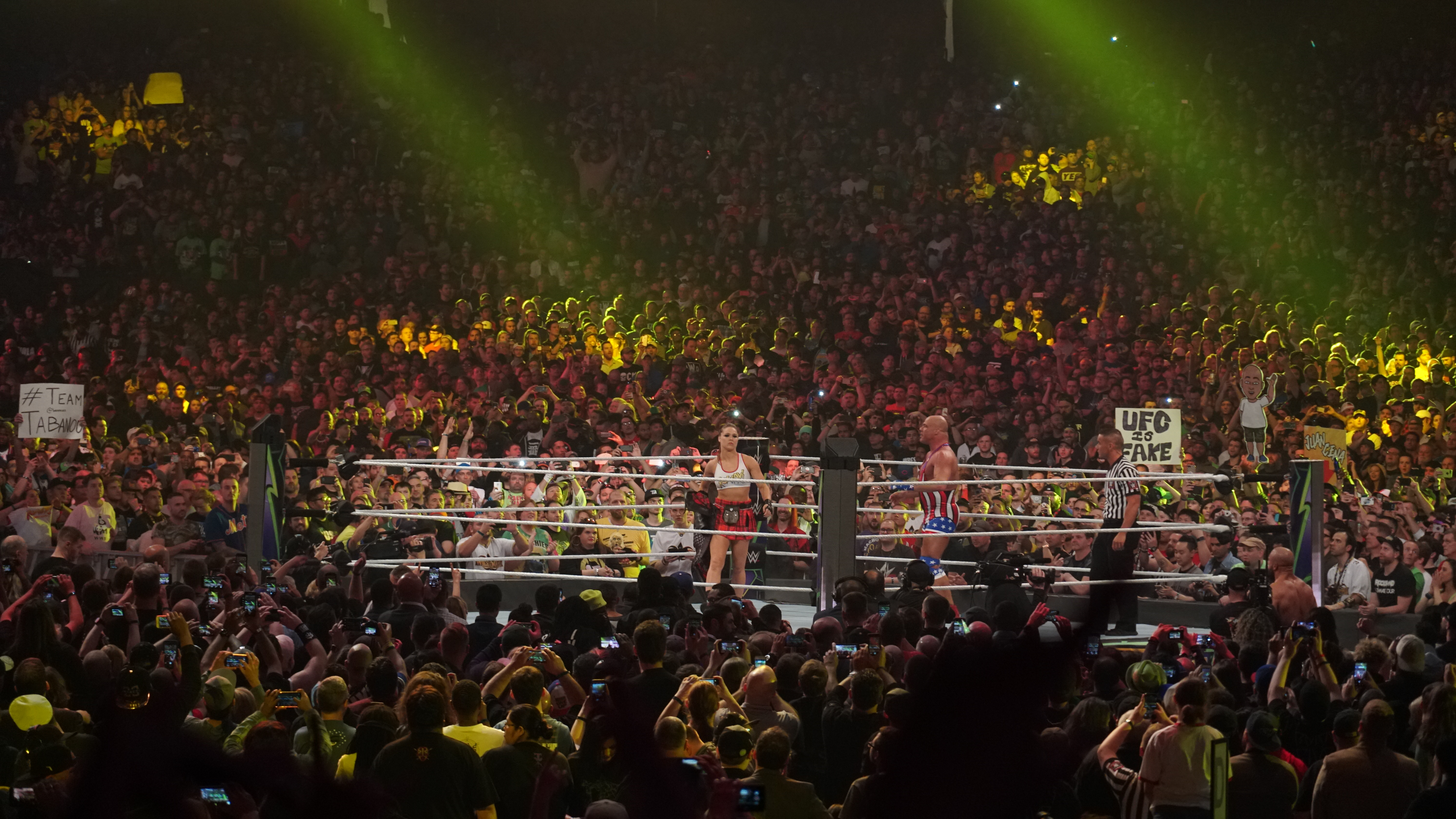 Ronda Rousey and Kurt Angle at WrestleMania 34.